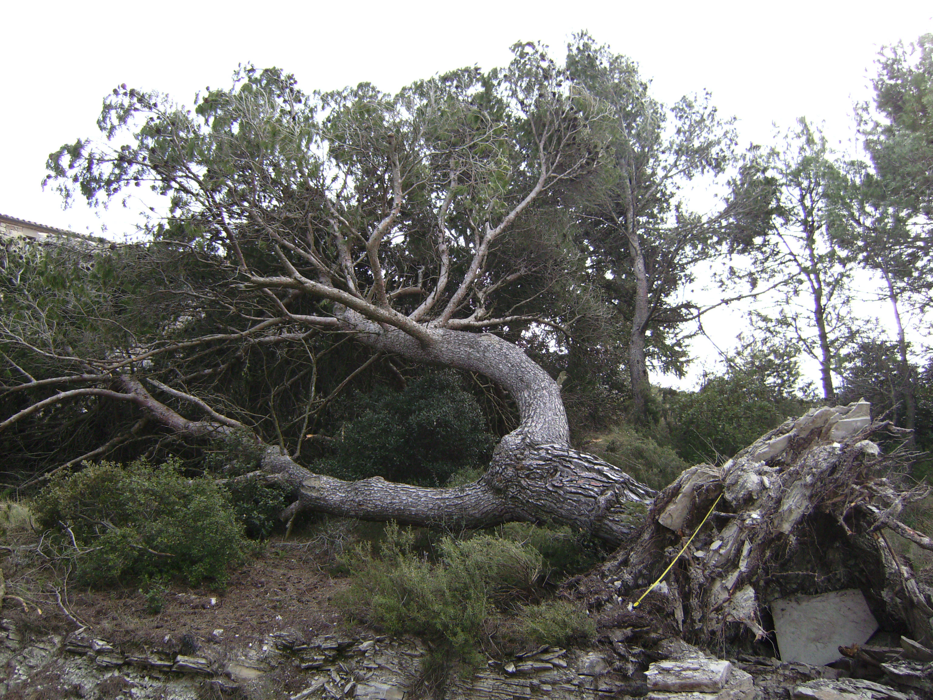 Wind effects in January 2009. The yellow line near roots marks 1 metre